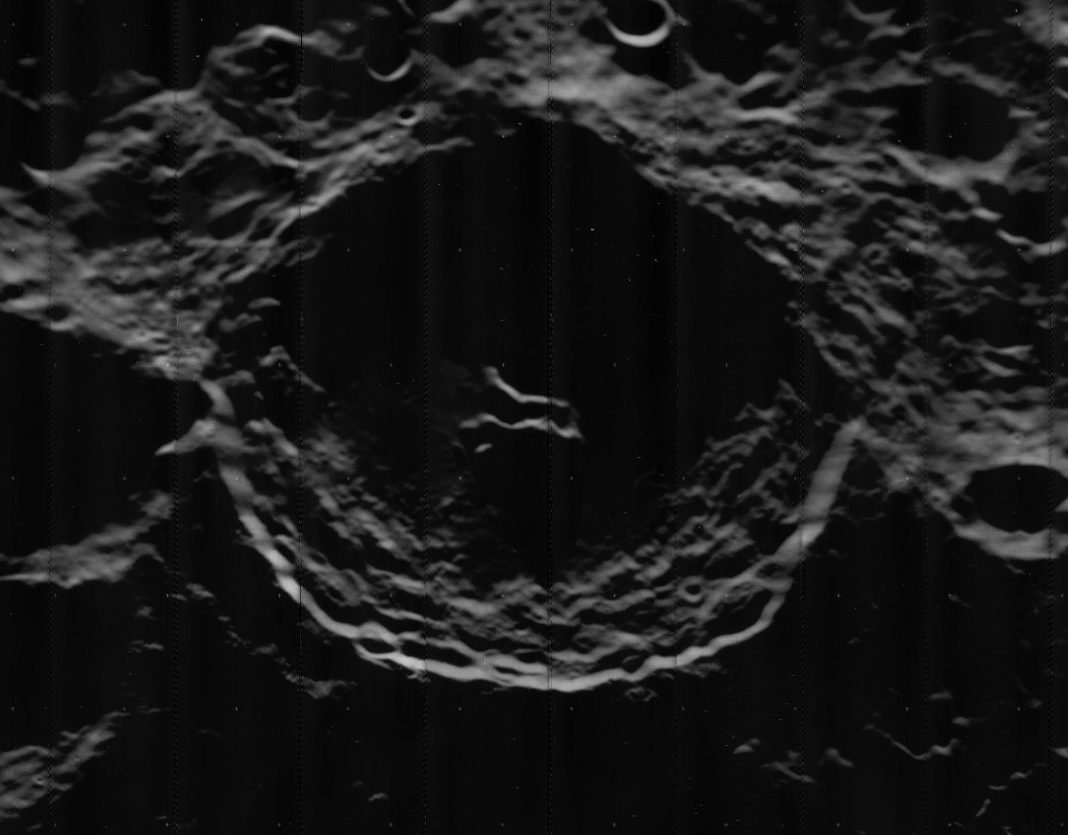 Oblique view of Kovalevskaya, on the far side of the moon, facing west.